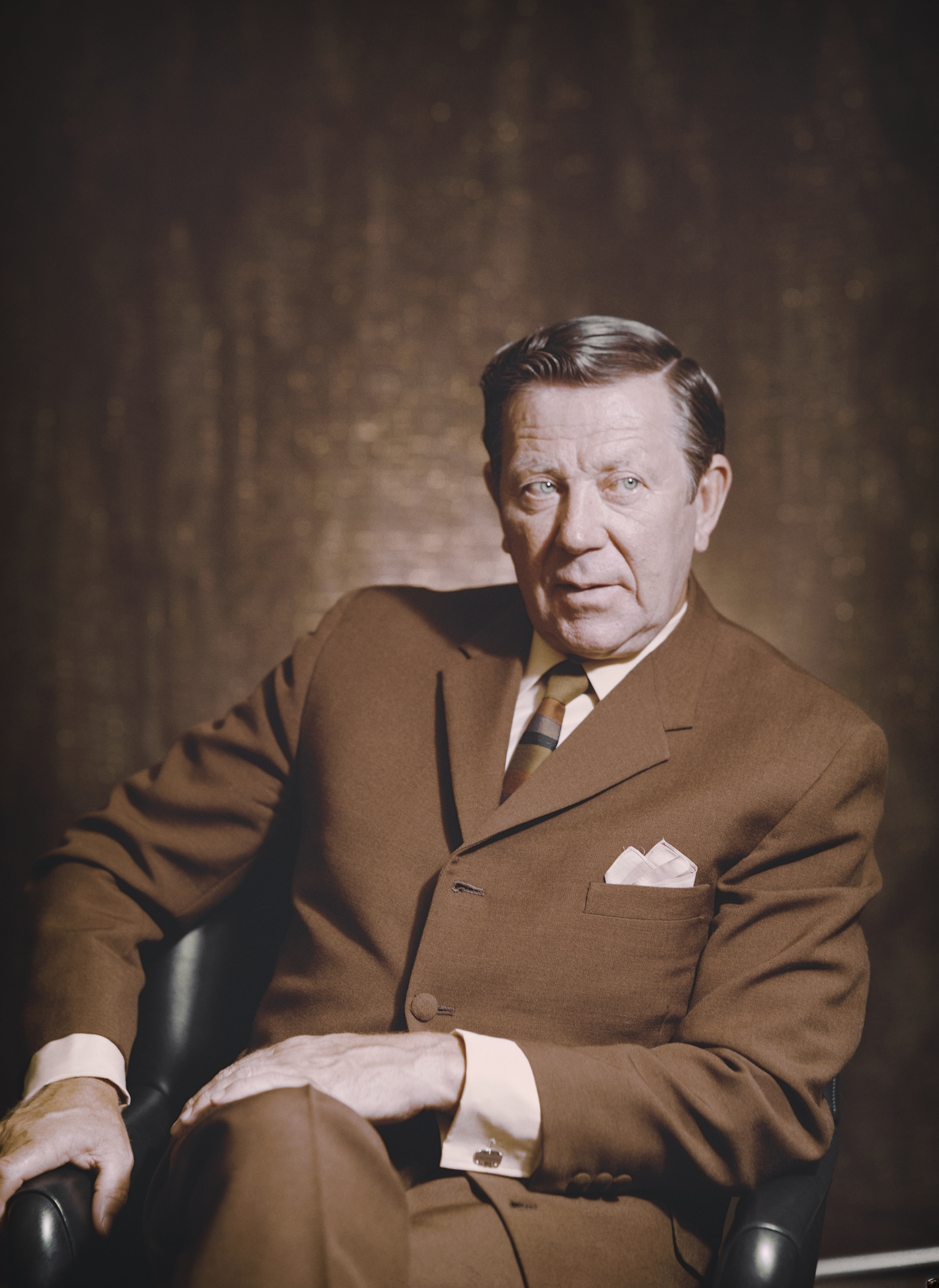 Photograph of the Finnish athlete and restaurant proprietor Runar Björklöf (1911–1998).